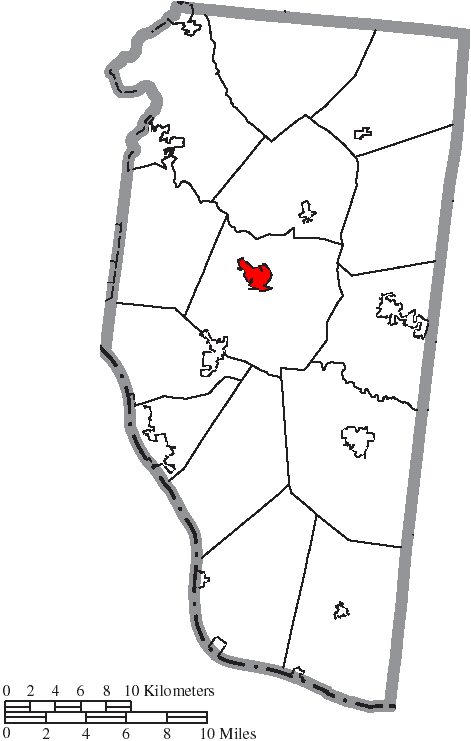 Map of the municipal and township boundaries of Clermont County, Ohio, United States, as of the 2000 census, with the location of the village of Batavia highlighted. Township borders are shown only in unincorporated areas in order to differentiate incorporated and unincorporated areas more clearly.